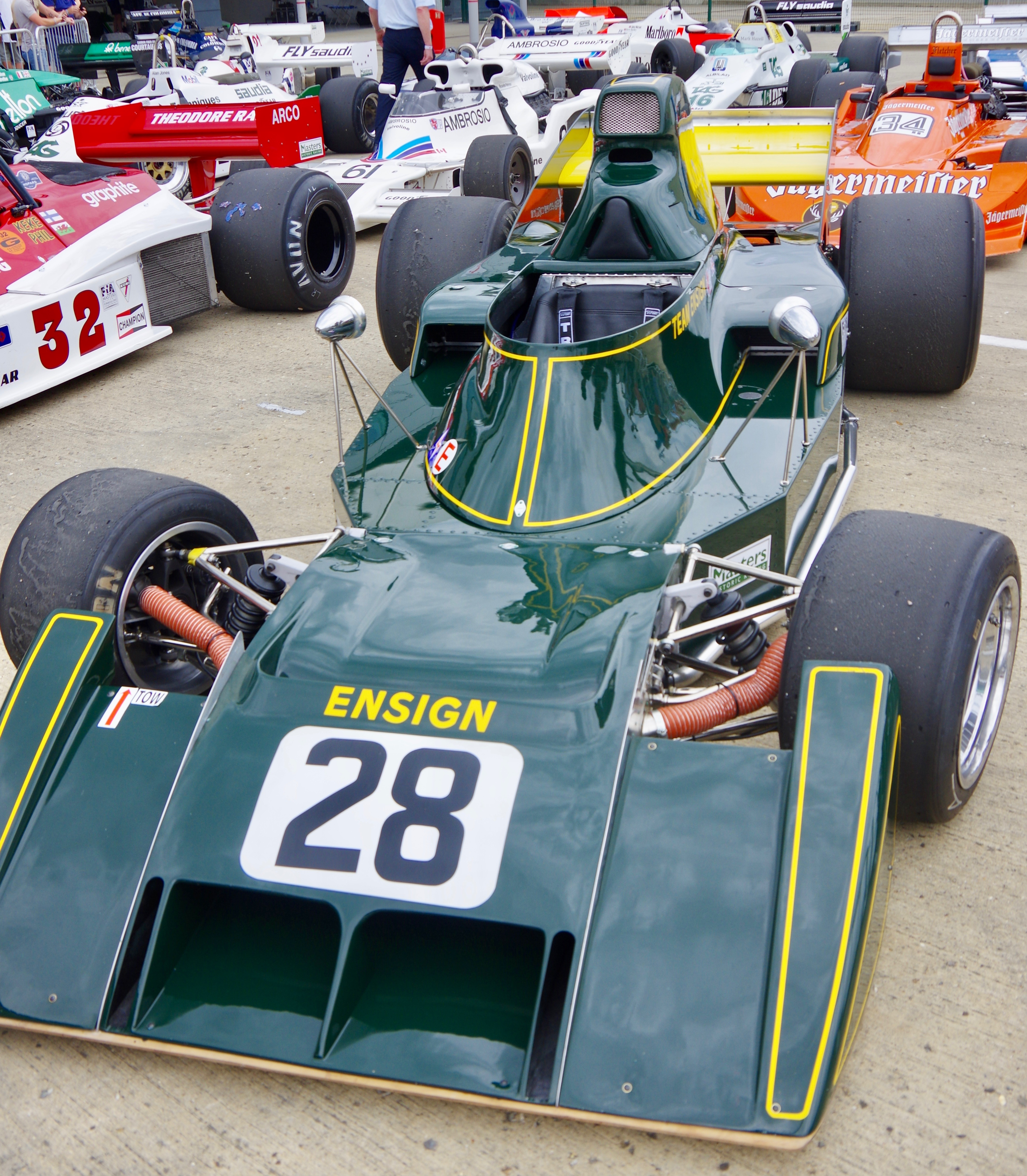 1973 Ensign N173 at Silverstone Classic 2019